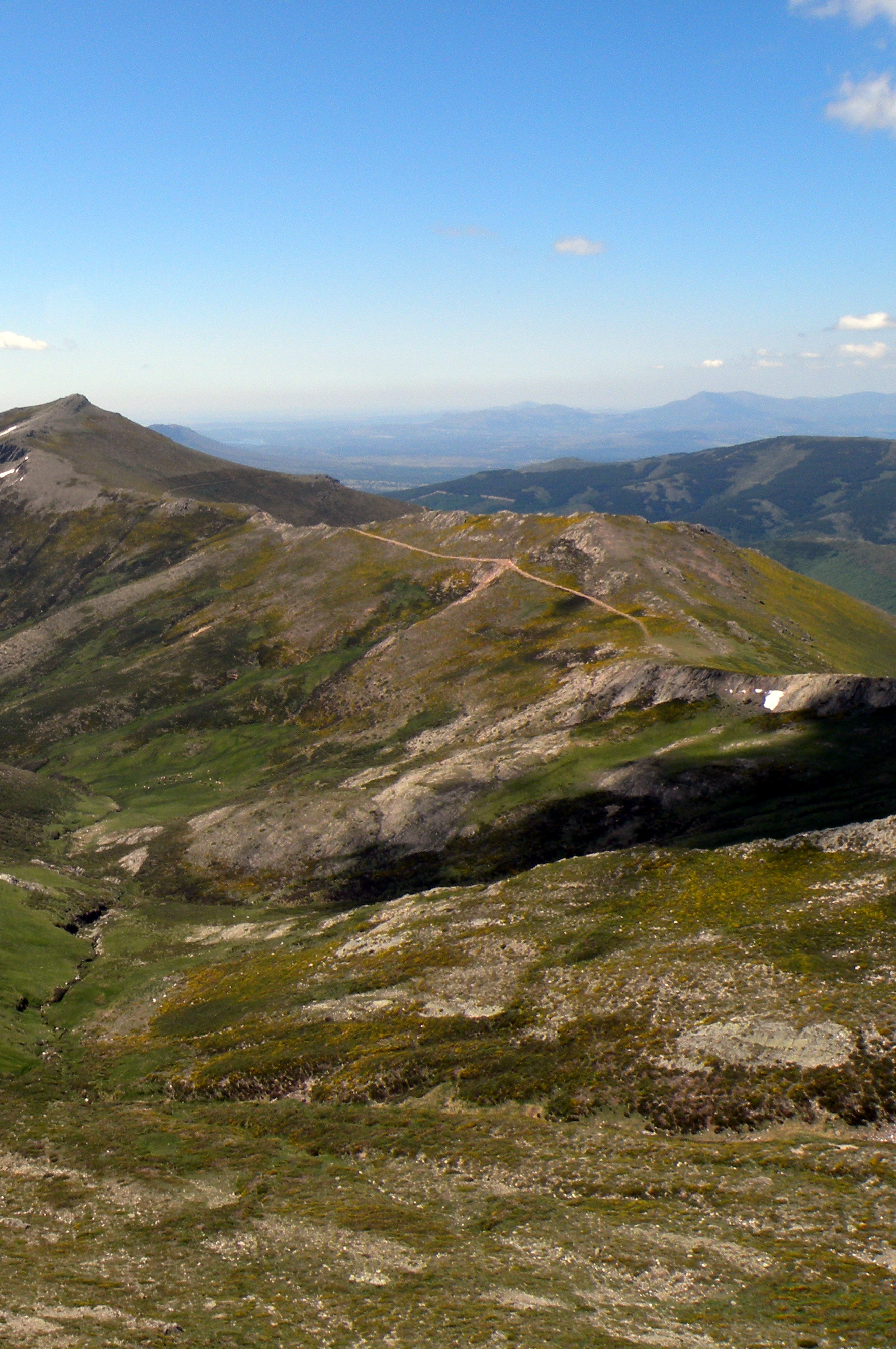 Majada de los Carneros and Cerrón, in Ayllón mountains, Guadalajara, Spain.